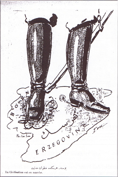 Caricature of Austria-Hungary's Annexion of Bosnia, 1909. Turkish text in German translation as mentioned in Heinzelmann, S. 126f. Text in Ottoman Turkish: Bosna-Hersek'te hatavat-ı medeniyet. Text in